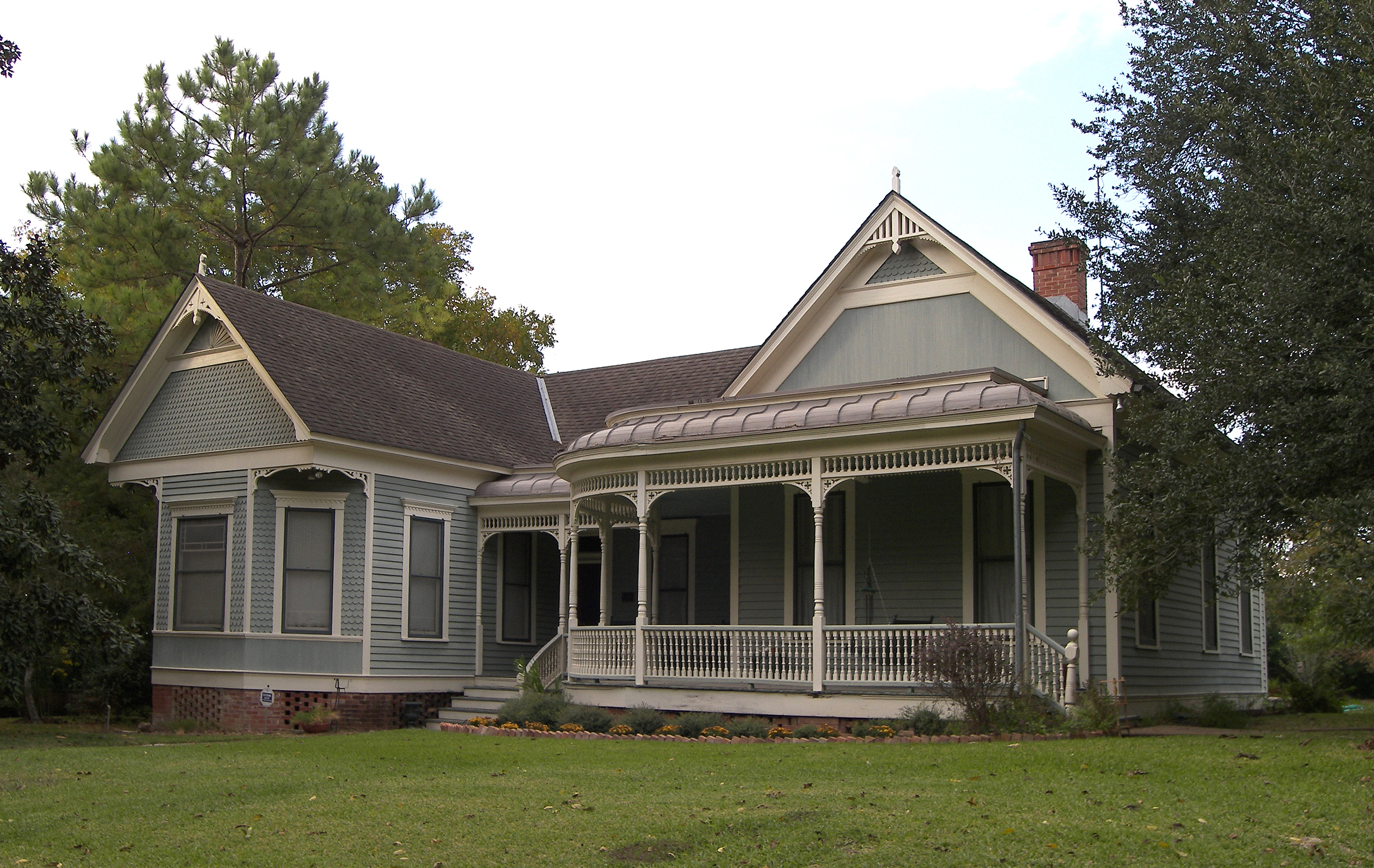 The J. R. Routt House located in Chappell Hill, Texas, United States. The house was listed on the National Register of Historic Places on February 20, 1985.